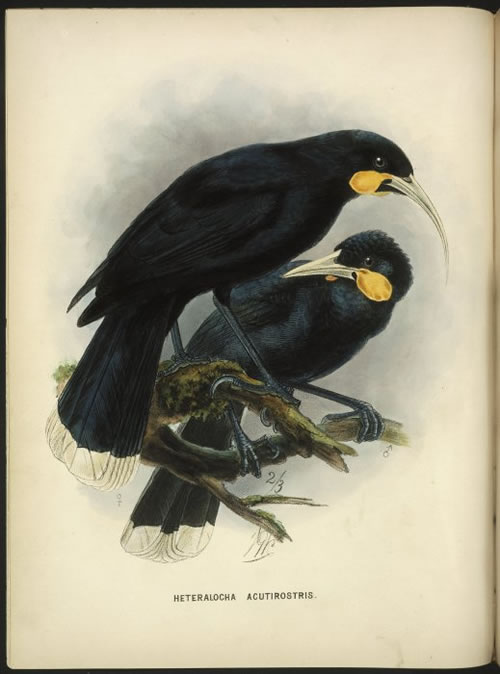 Huia (extinct).